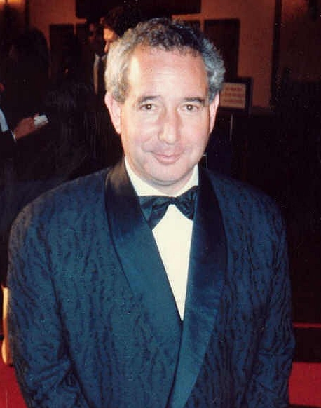 Michael Tucker at the Governor's Ball held immediately after the 39th Annual Emmy Awards telecast 9/20/87